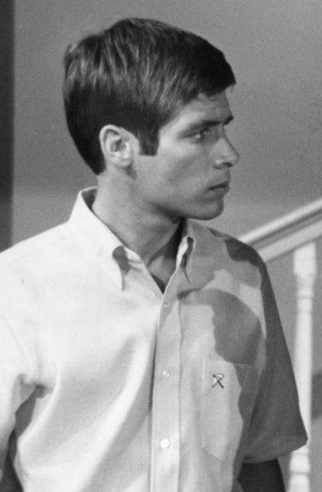 Photo of Don Grady (Robbie) and William Demarest (Uncle Charley) from the television program My Three Sons.